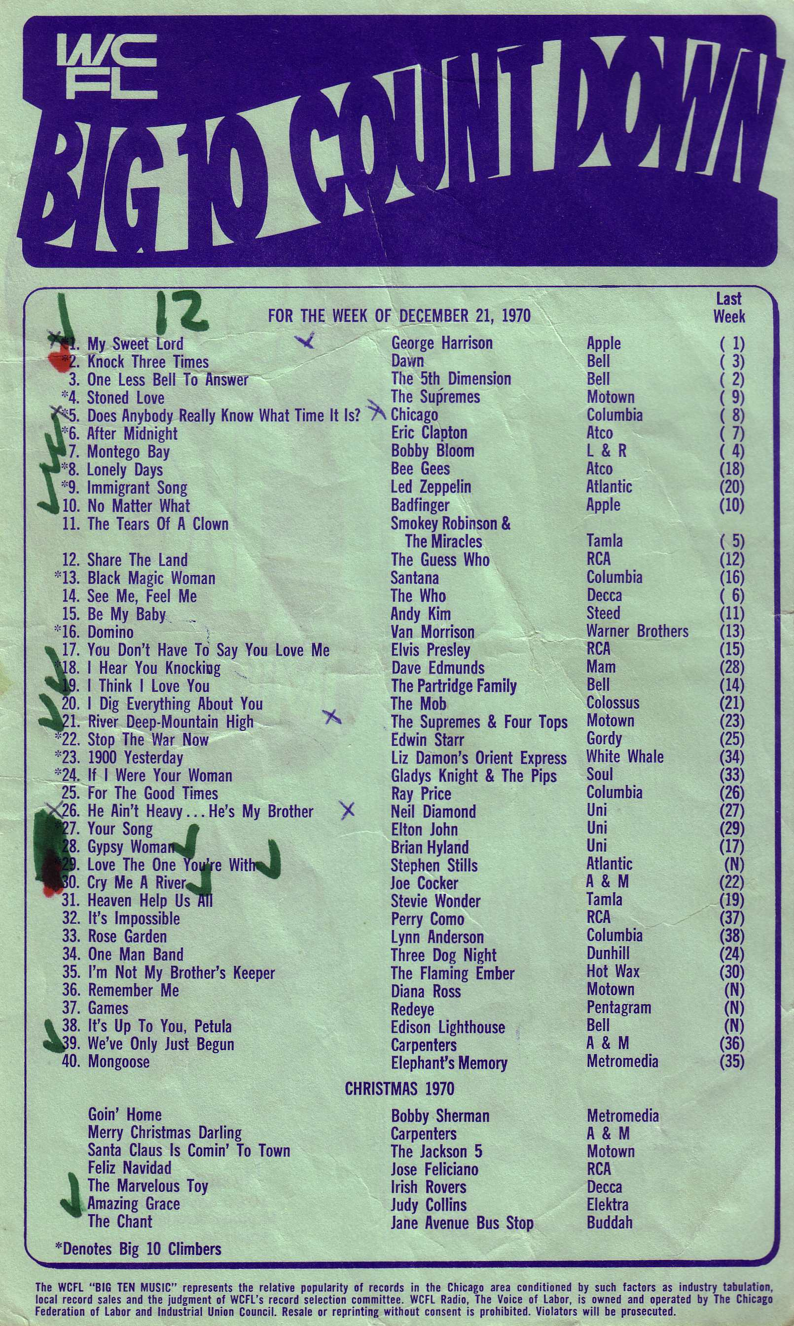 WCFL (Chicago) Top 40 hit survey, December 21, 1970: "My Sweet Lord" stays number one again, and "Knock Three Times" moves to number 2. "Lonely Days" by the Bee Gees is on the move (love that song!), and Stephen Stills debuts with "Love the One You're With".